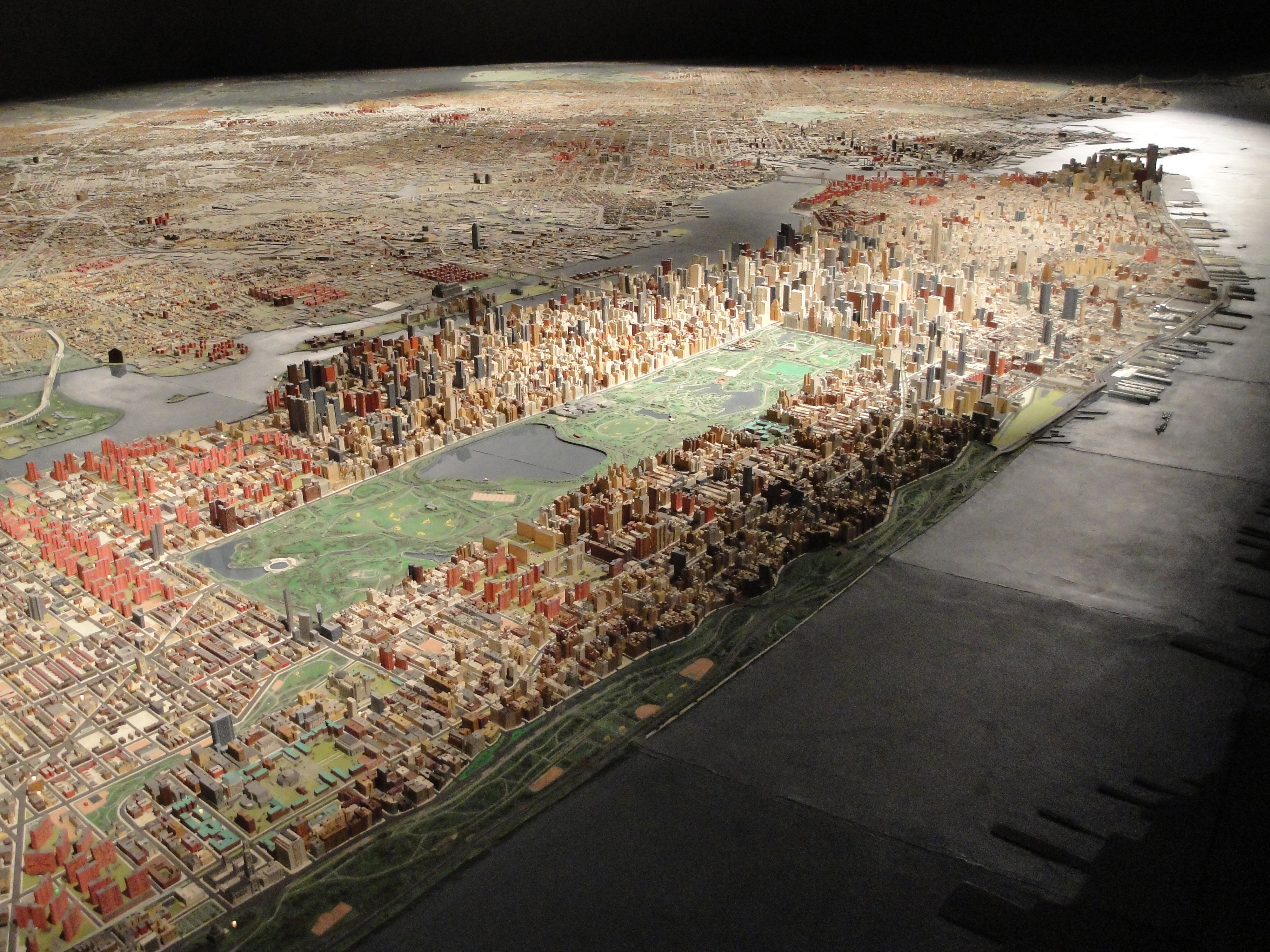 The Panorama of New York City located at the Queens Museum of Art.